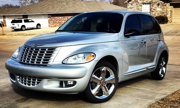 2003 Chrysler PT Cruiser GT, 2.4L Turbo. The vehicle pictured started it's life as part of Chrysler's Executive Vehicle Fleet and was a show car for the 2003 PT GT release.